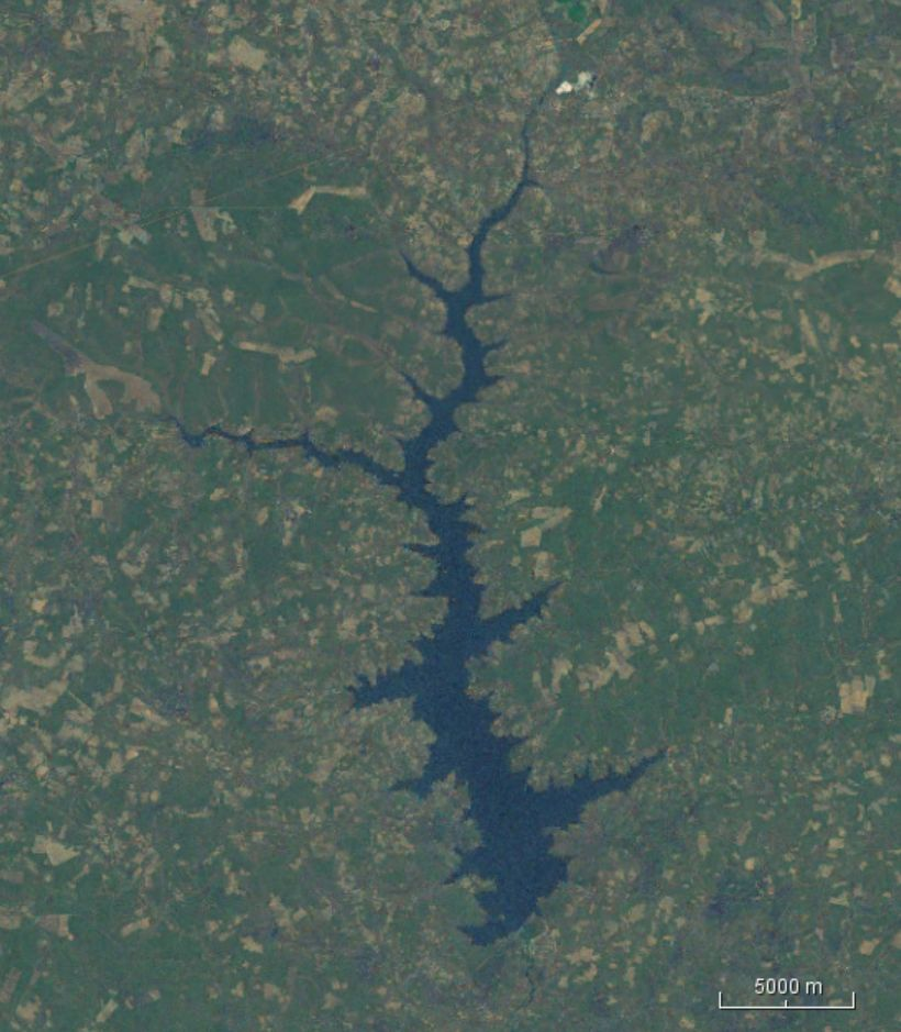 Satellit photo of Mita-Hill Reservoir